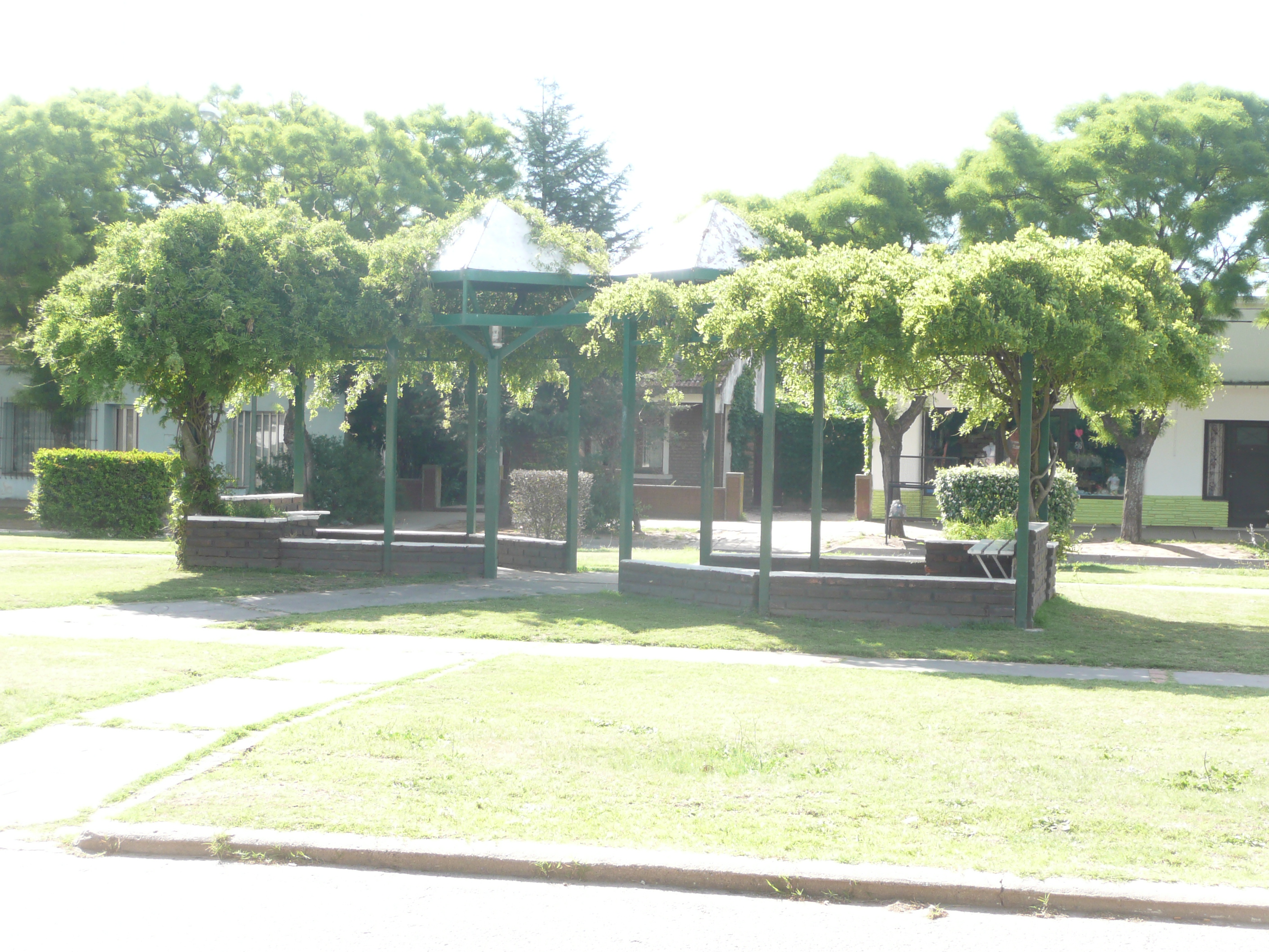 Fortín Olavarría town, Buenos Aires province, Argentina.